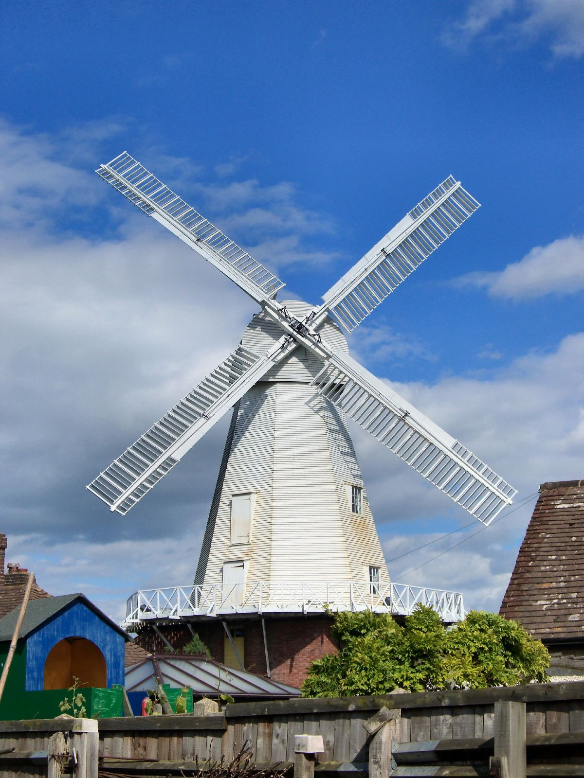 Summary: Willesborough Windmill, Ashford, Kent Author: Tim Sheerman-Chase